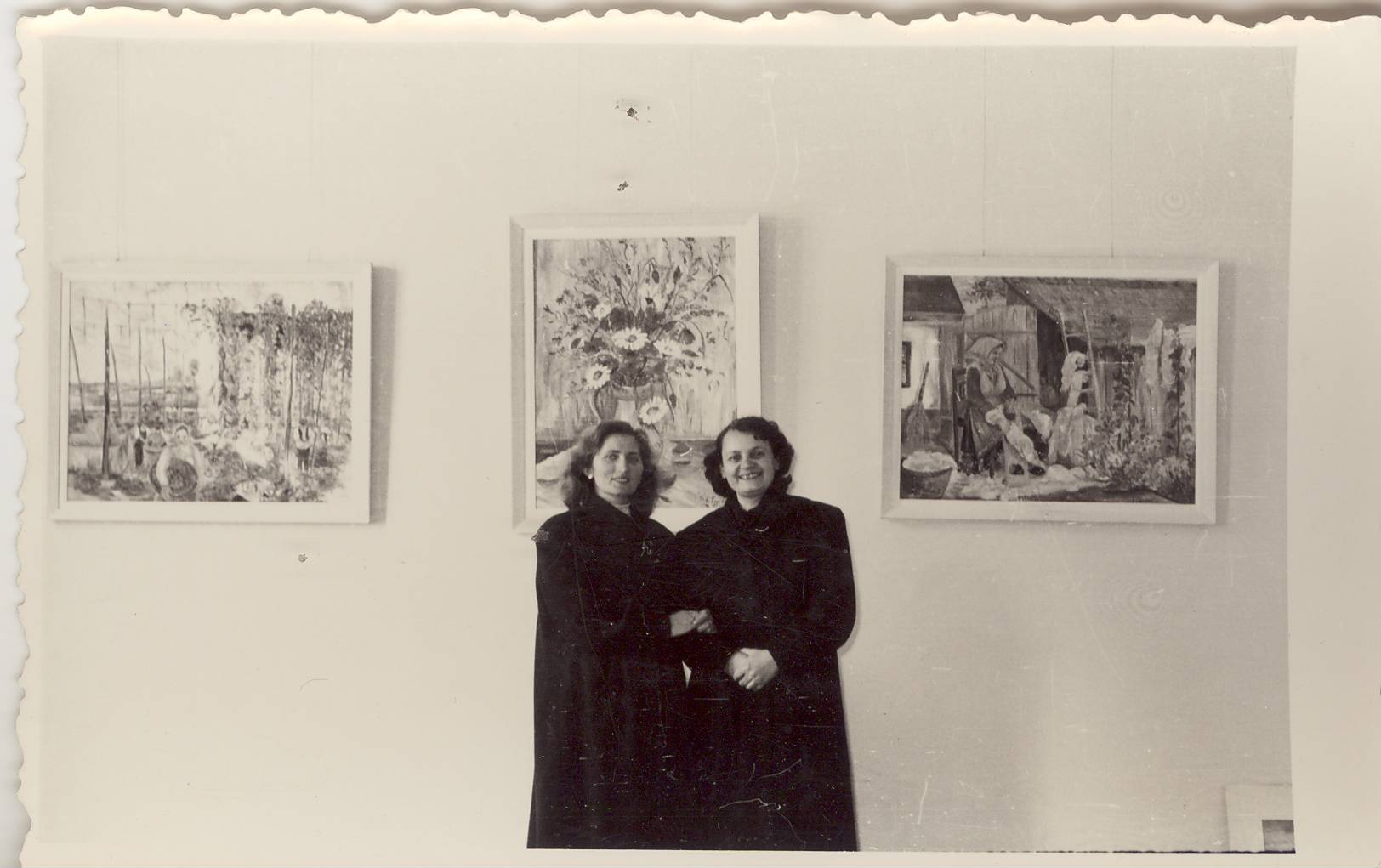 A photograph of the painter Ana Maljah-Fajndović (on the left) with director of the Slovak National Museum in Bački Petrovac Zlata Kišgeci (on the right) during one of her solo exhibitions. Inventory number 1691. Srpski (latinica): Fotografija slikarke Ane Maljah-Fajndović (levo) sa direktorkom Slovačkog narodnog muzeja u Bačkom Petrovcu Zlatom Kišgeci (desno) tokom jedne od njenih samostalnih izložbi. Inventarski broj 1691.